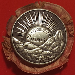 The badge of the socialist French Workers Party (Parti Ouvrier Français) created in 1893 by Jules Guesde. It represents a rising sun among the mountains, symbol of hope in the future, and it is superimposed on a red textile cocard. The party existed until 1905.